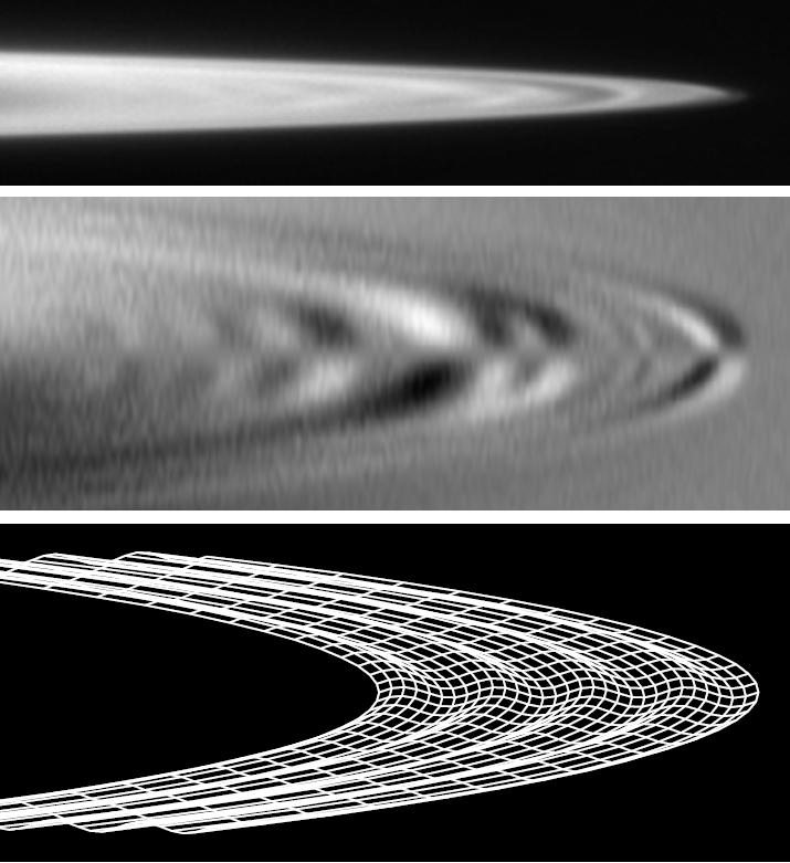 These images, derived from data obtained by NASA's Galileo spacecraft, show the subtle ripples in the ring of Jupiter that scientists have been able to trace back to the impact of comet Shoemaker-Levy 9 in July 1994. The top image was obtained by Galileo on Nov. 9, 1996, and shows the tip of the Jovian ring. The middle image is a version of the same image that has been computer-enhanced to show the ripples. The third image shows a computer model derived from the data.